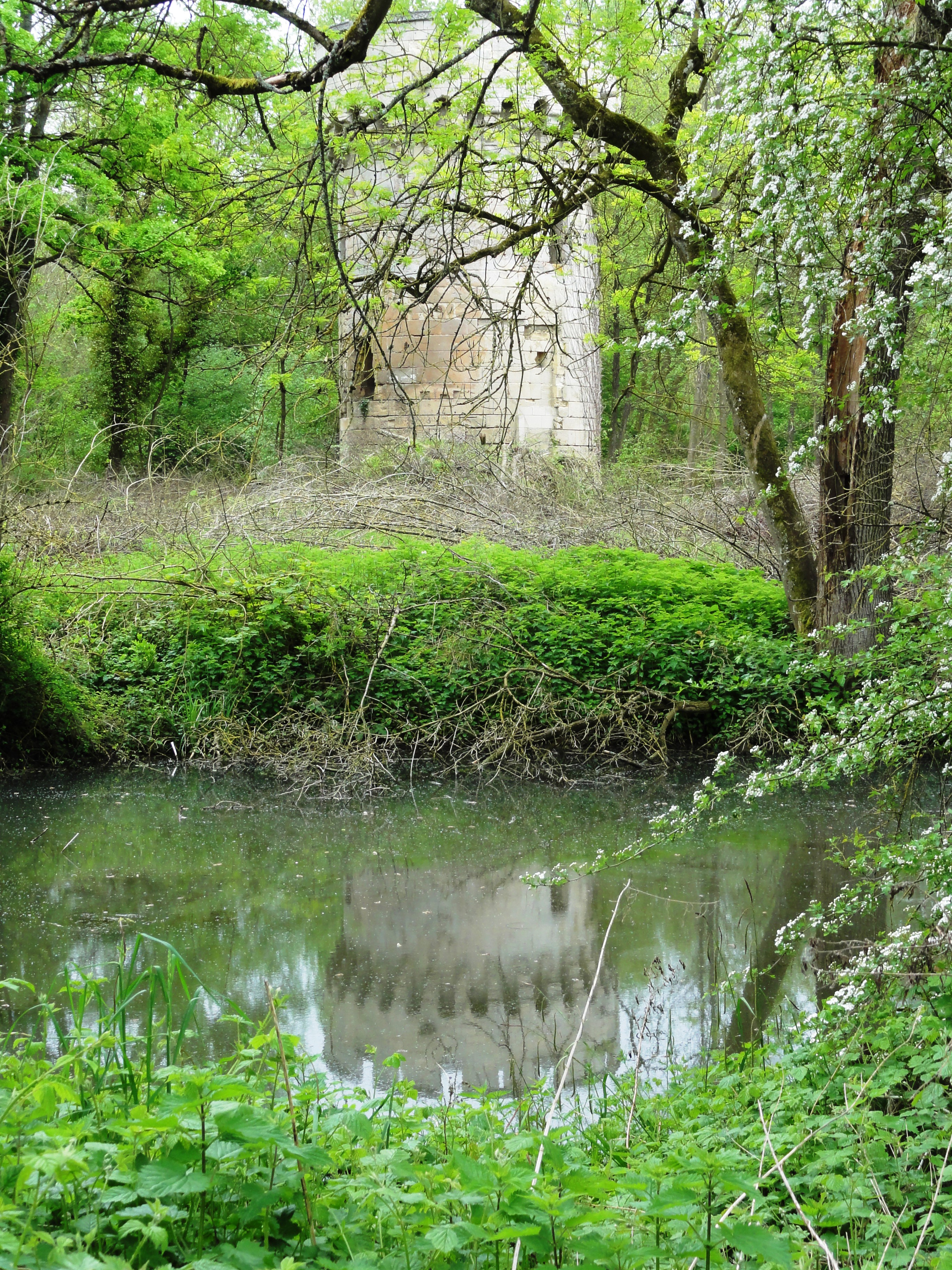 Ployart-et-Vaurseine (Aisne) Tour de Vaurseine